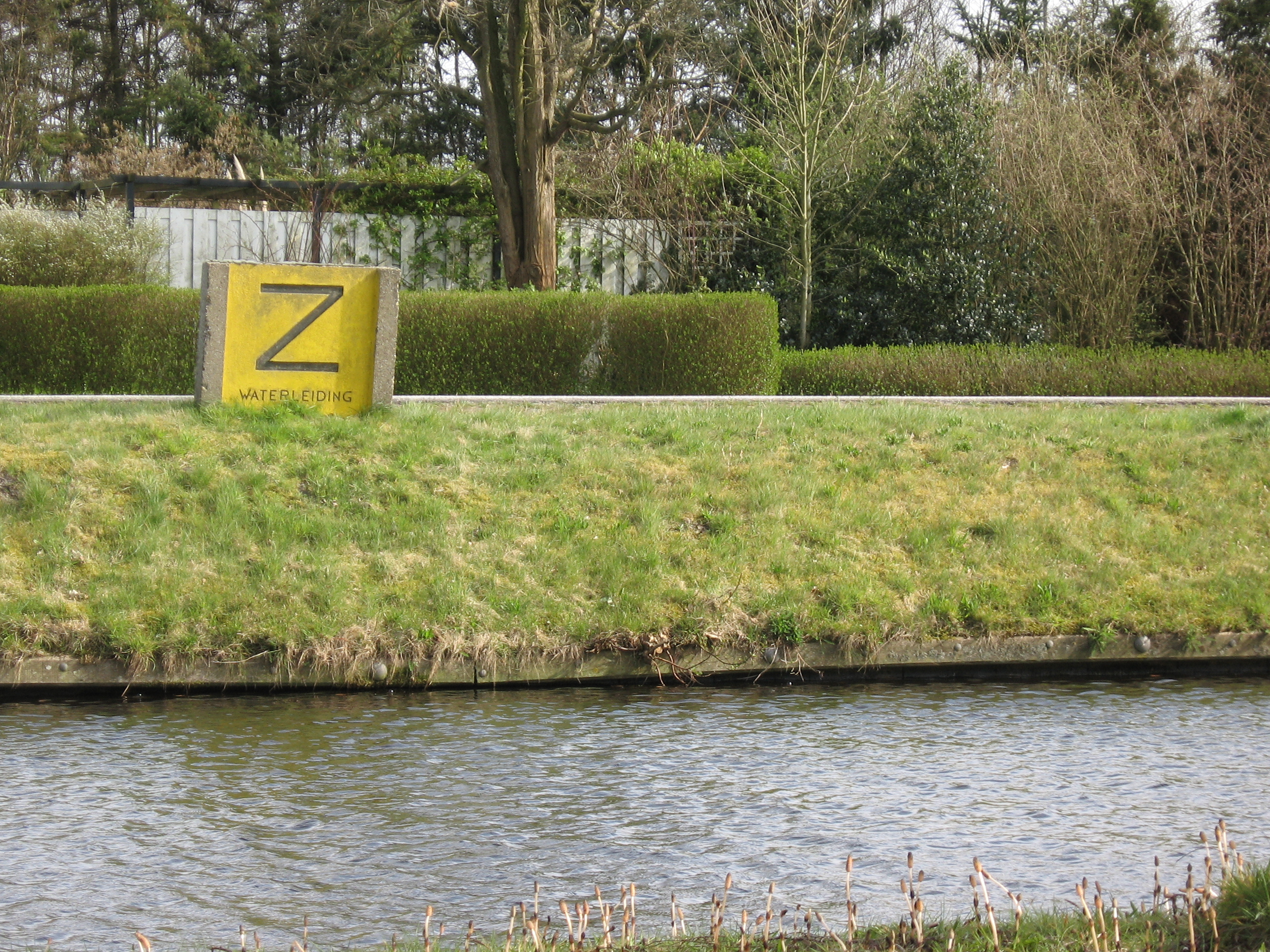 Marker for a water pipe passing under a water course.